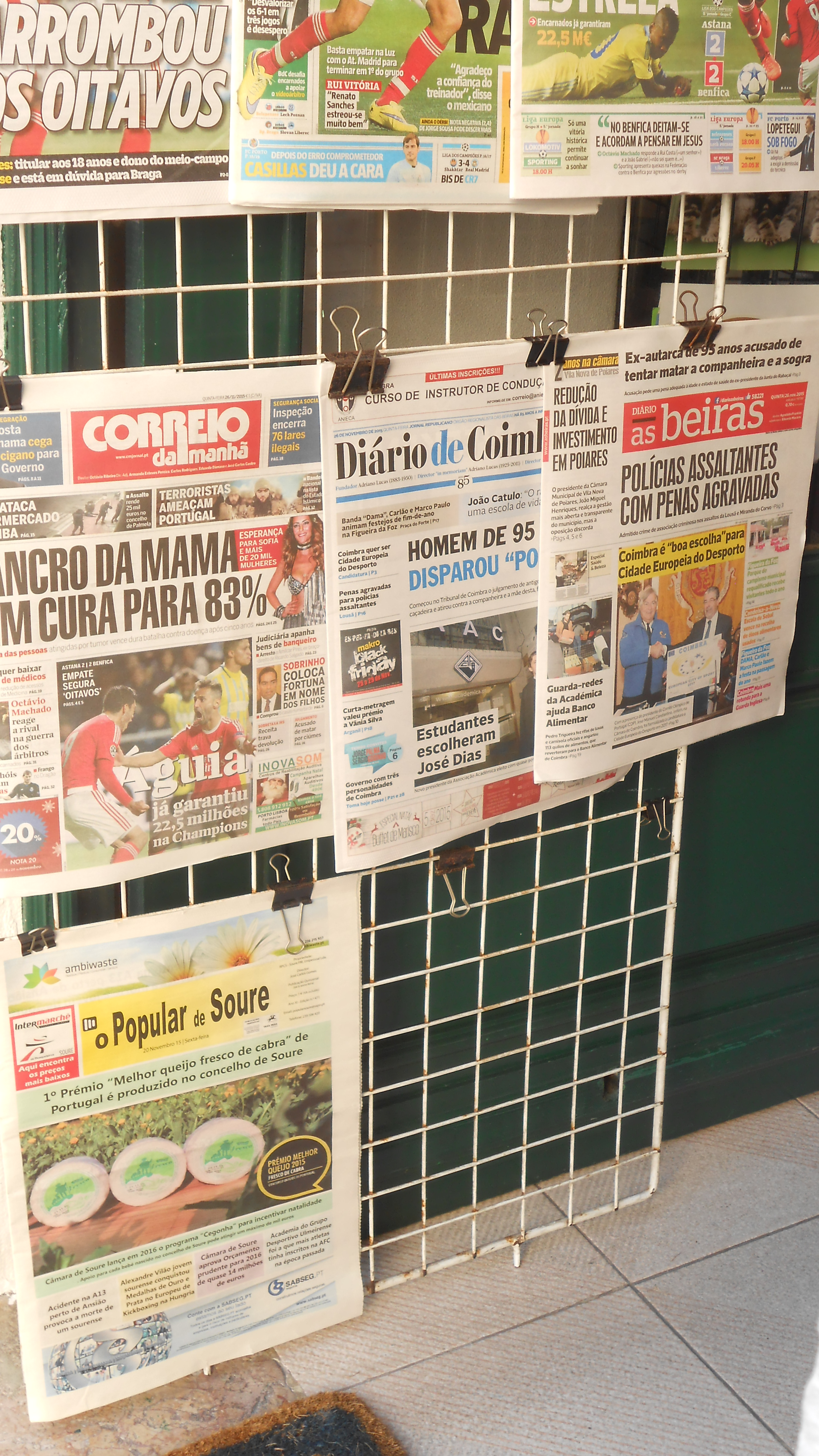 Newspapers stand in the portuguese town of Soure, seen in november of 2015.